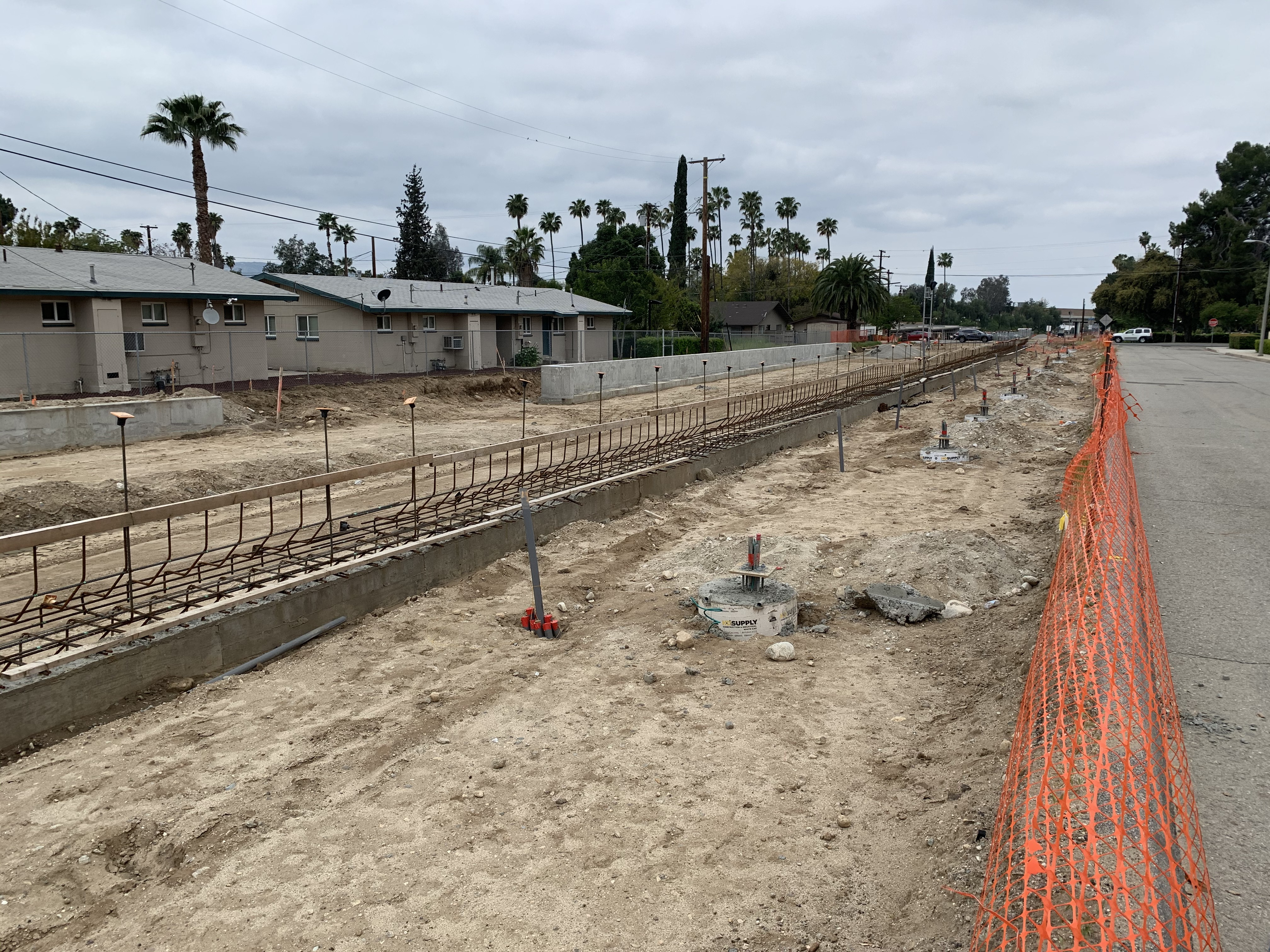 University Station terminus of Arrow Metrolink Commuter rail under construction at University of Redlands in Redlands, CA.